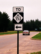 M-553 sign assembly outside Sawyer International Airport in Marquette County, Michigan, US